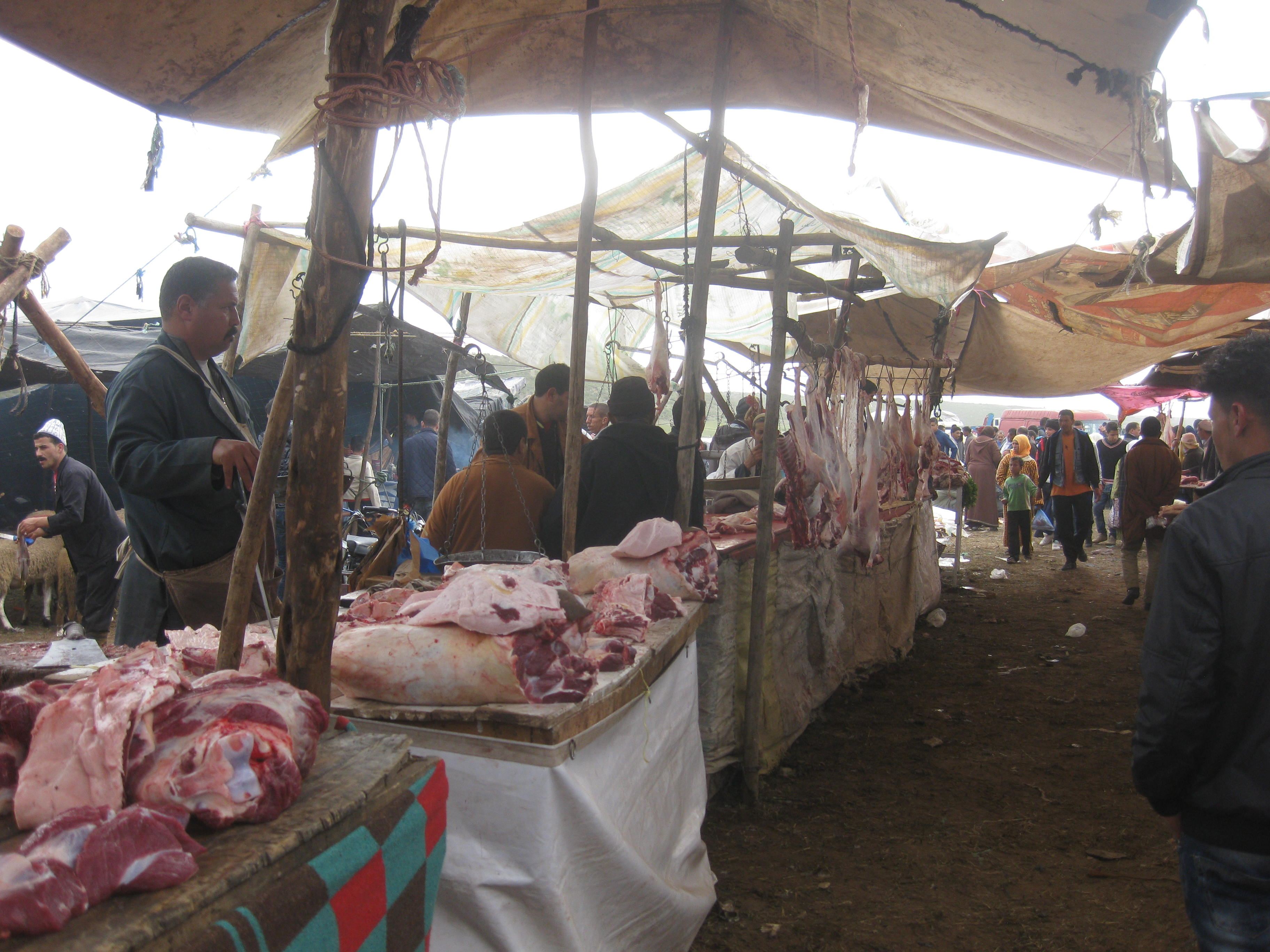 La viande de chameau est la principale denrée de ce Moussem